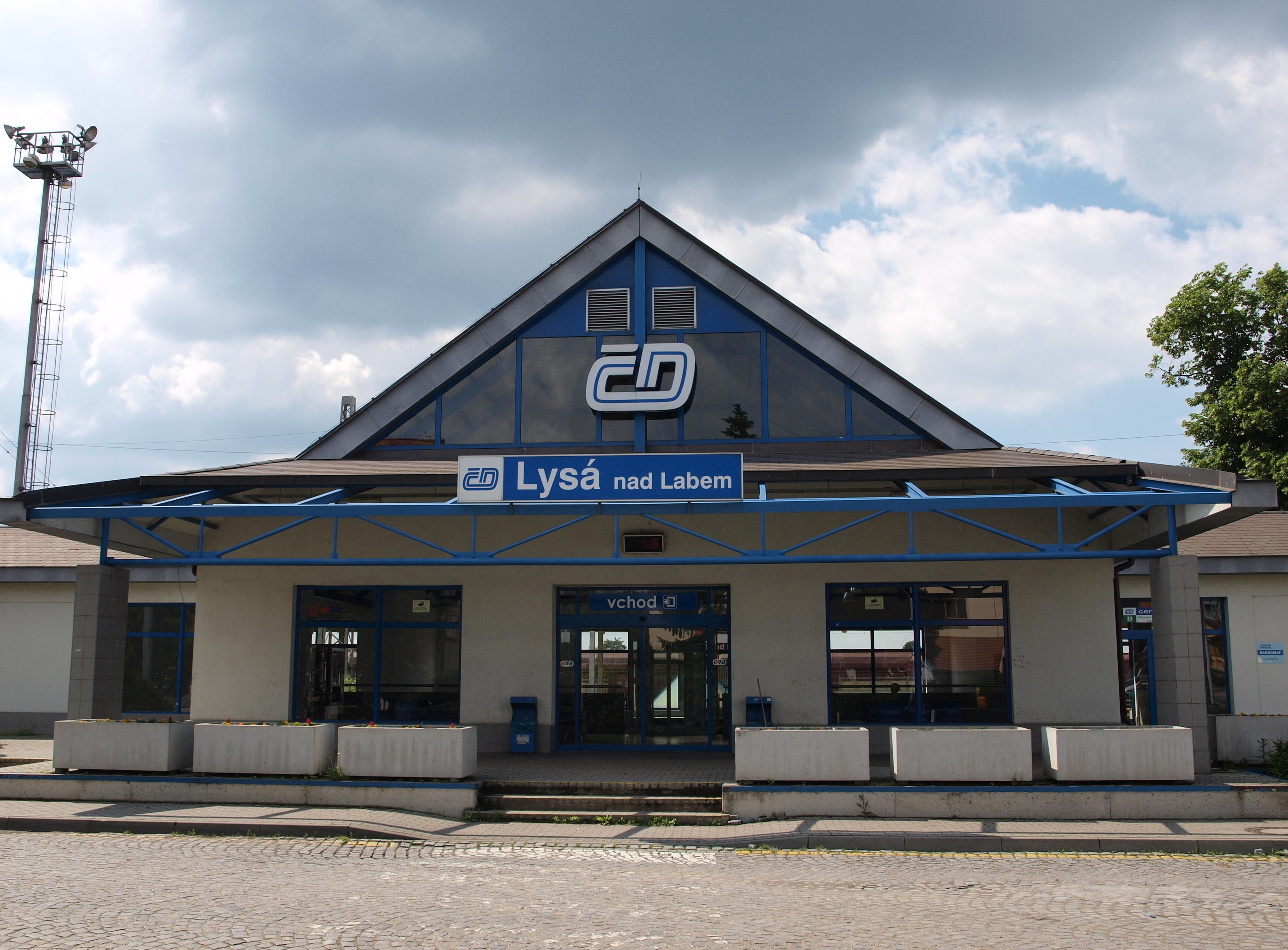 New building of train station, Lysá nad Labem train station